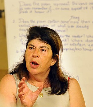 Cropped image of Annie Freud speaking in public, eldest daughter of Lucien Freud.